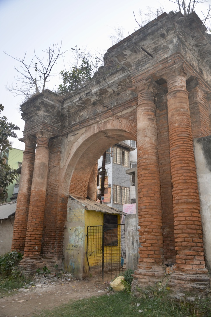 The gate of Andul Rajbari.